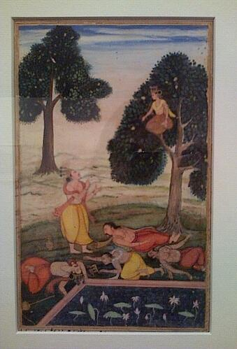 Razmnama episode from vanaparwa by Artist sadiq